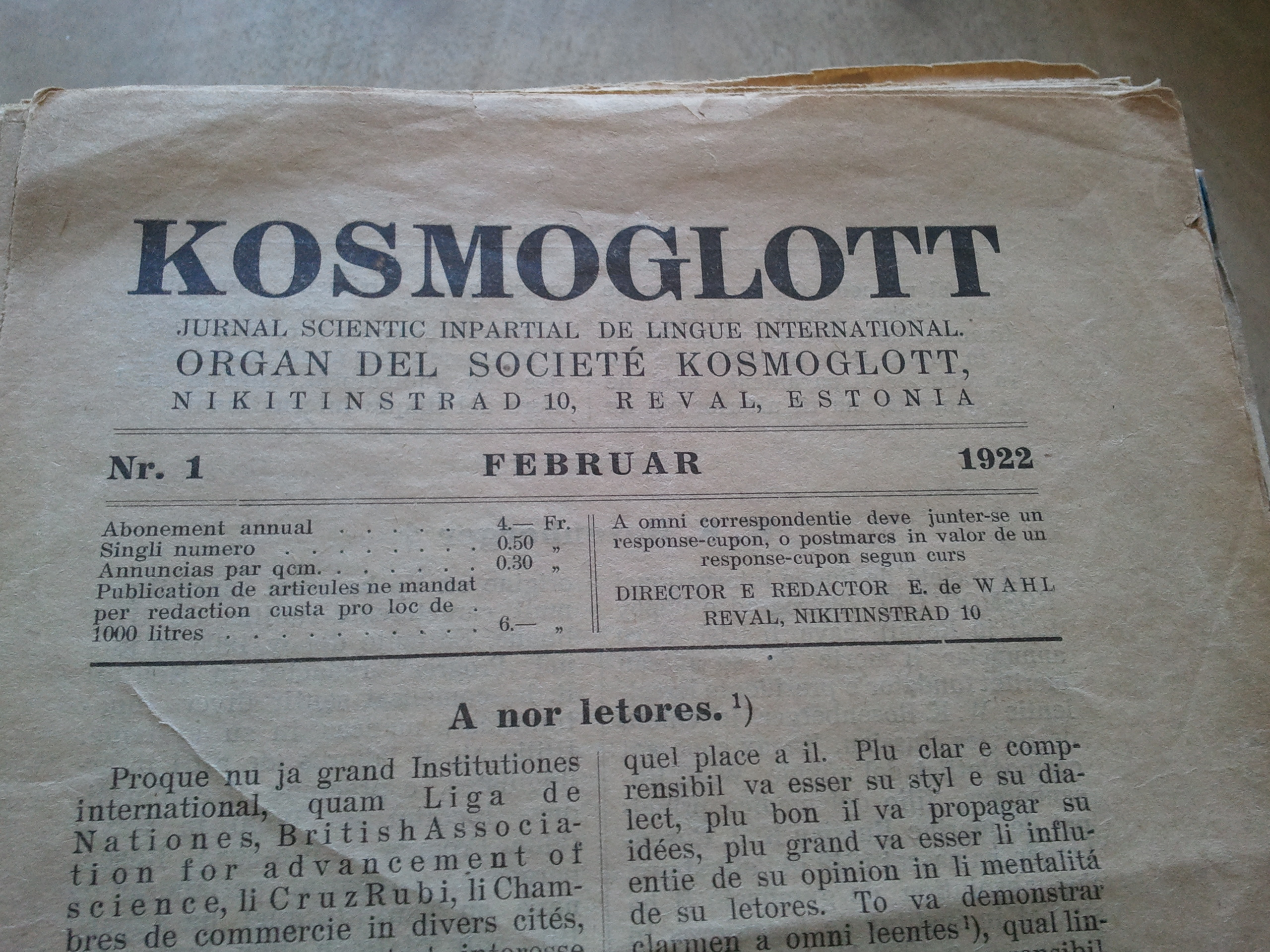 Header of the first issue of Kosmoglott (future Cosmoglotta), the magazine published by Edgar de Wahl where the language Occidental (later Interlingue) was announced. This is a photography taken in the archives of the centre for study of international languages (CDELI) in La Chaux-de-Fonds, Switzerland